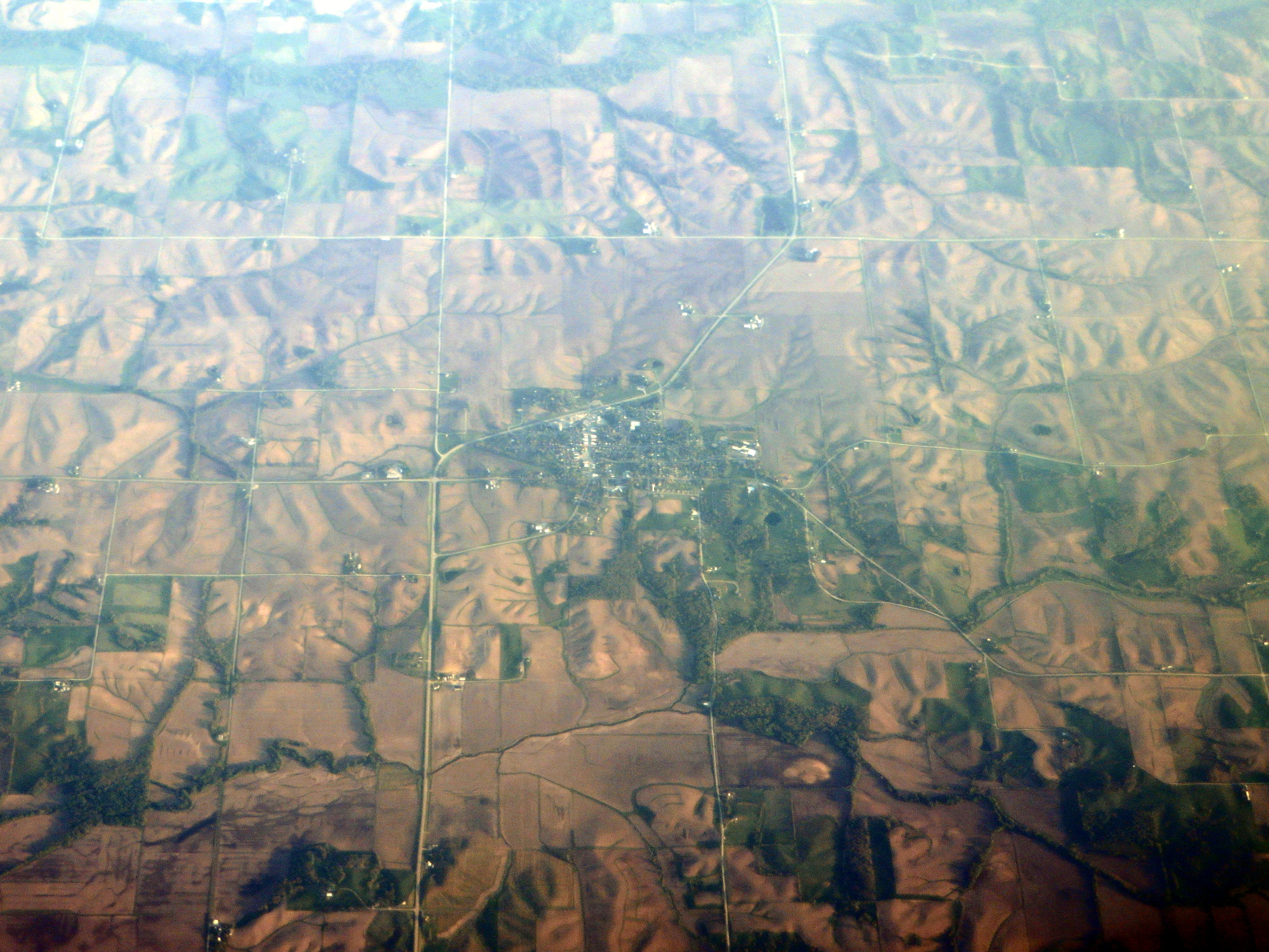 North English is a city in Iowa and Keokuk counties in the U.S. state of Iowa. The population was 1,041 at the 2010 census. It is named for the English River. North English was laid out in 1855; it was originally called Nevada.